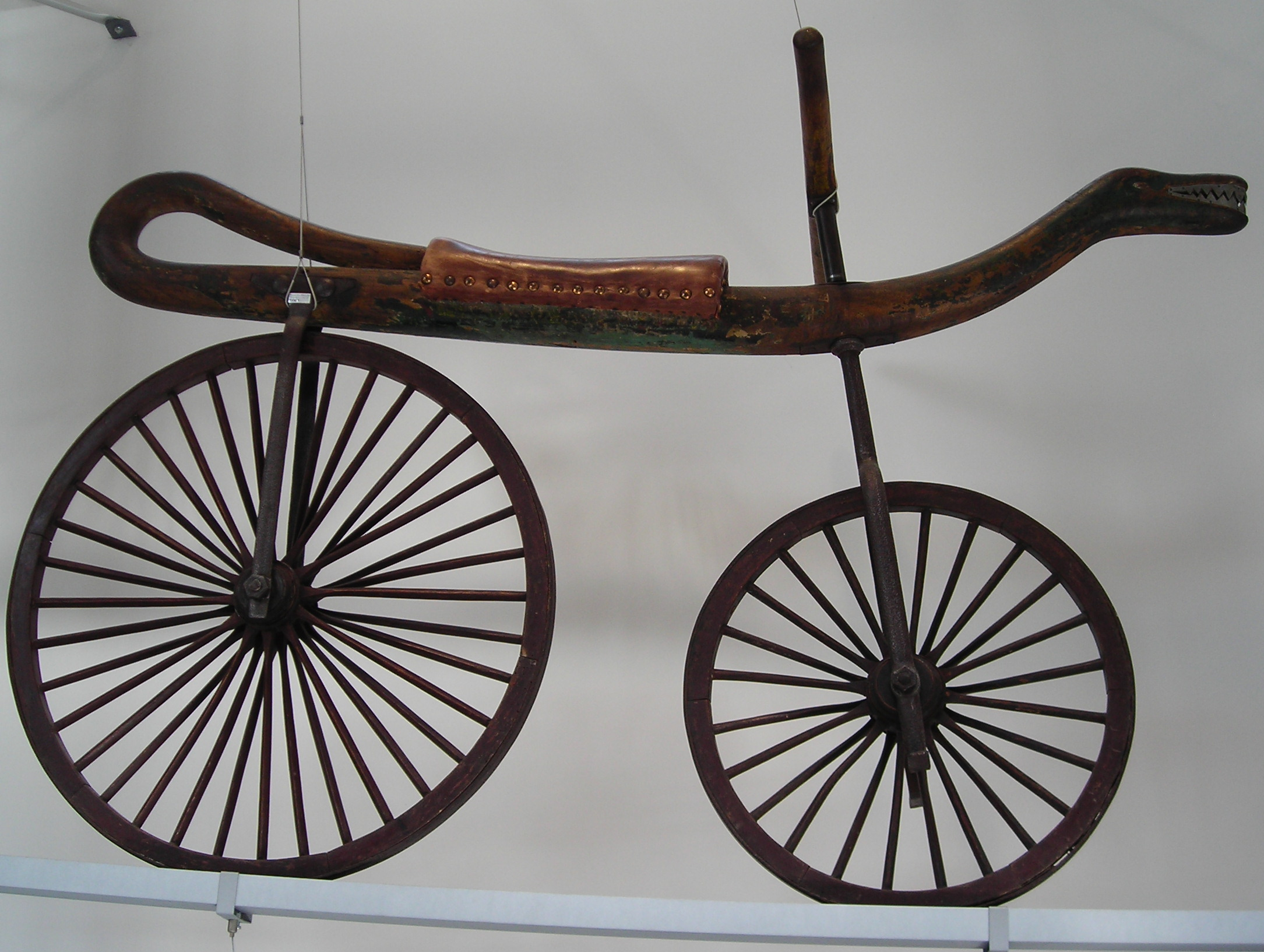 Draisienne with Dragon's or Reptile's head, probably Paris, around 1825, displayed at Deutsches Museum Verkehrszentrum Munich, Germany